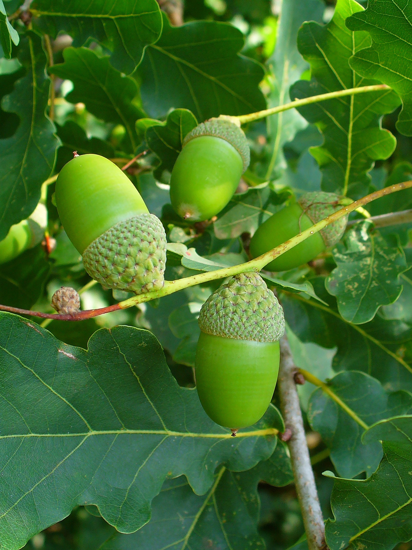 Quercus robur, Fagaceae, Pedunculate Oak, English Oak, fruits. Karlsruhe, Germany.